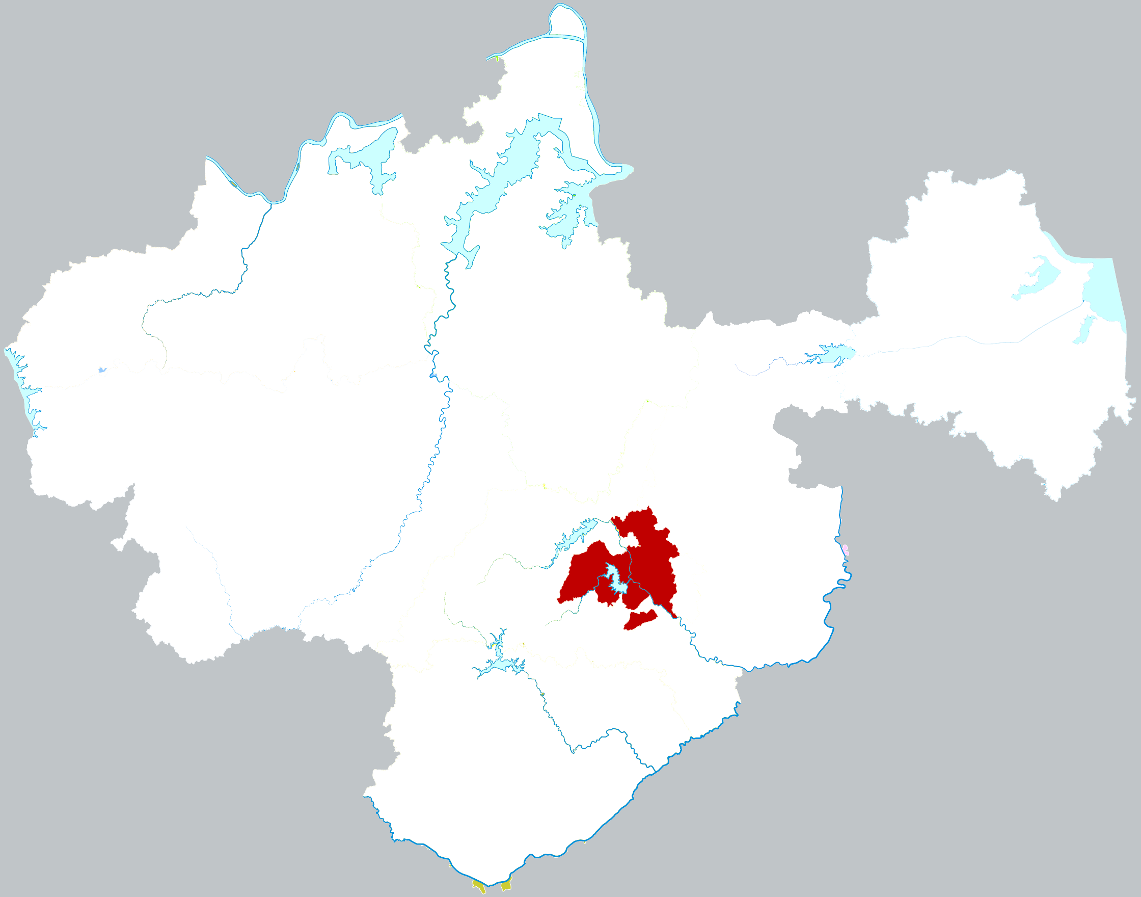 Location of Langya district in Chuzhou city, China